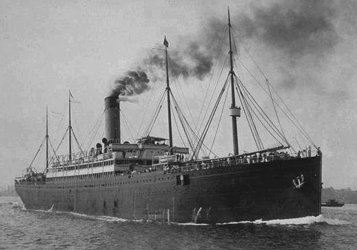 SS Republic